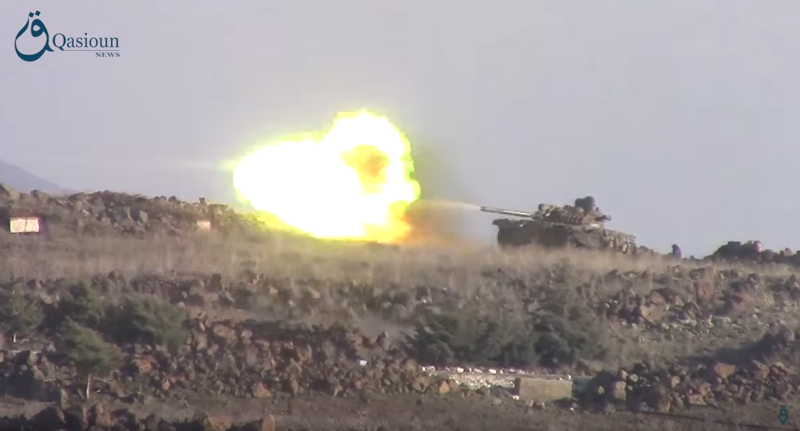 A rebel T-72 tank attacks government positions at Tal Kroum in the Golan Heights.